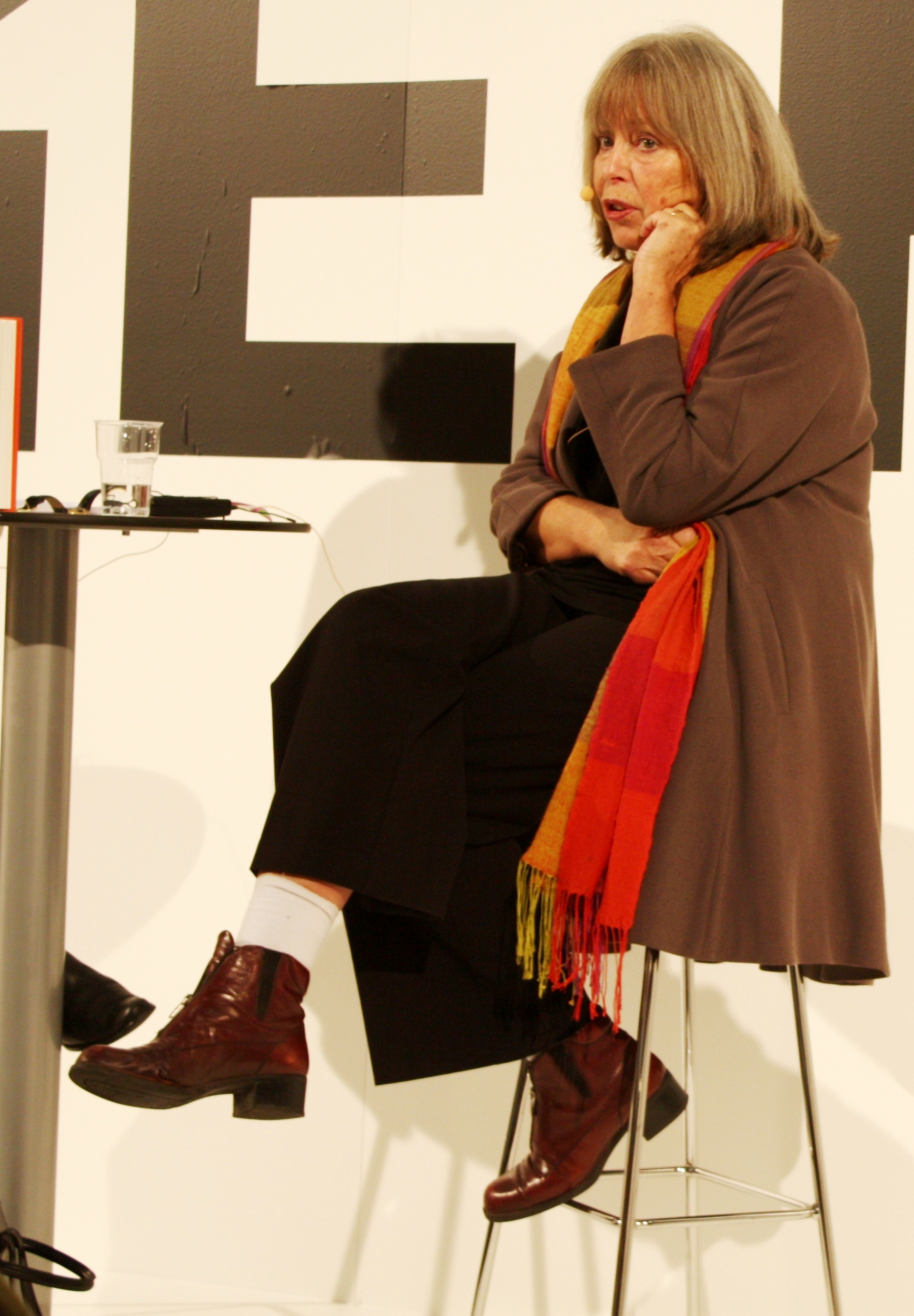 Journalist and writer Agneta Pleijel at Helsinki Book Fair 2009